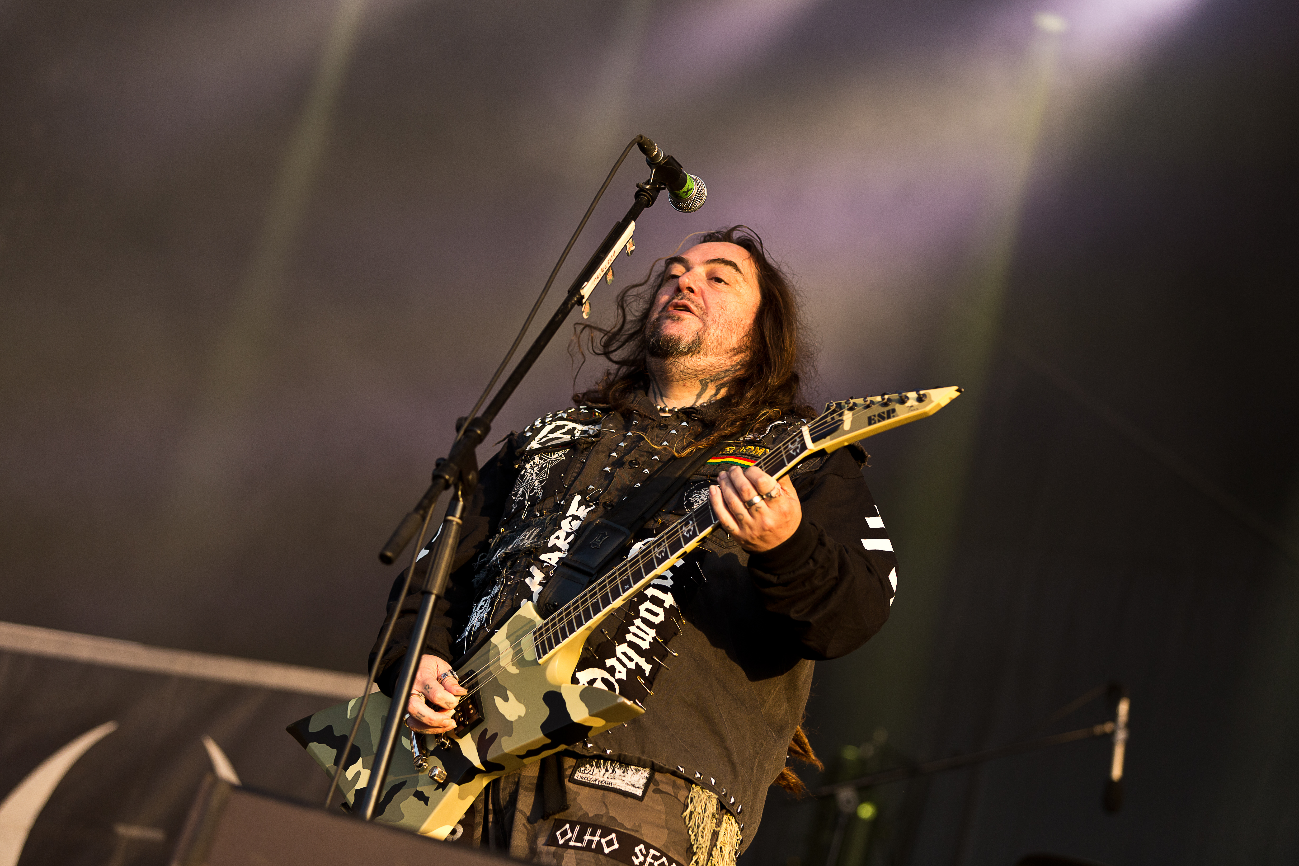 The American heavy metal band Soulfly at the Rockharz Open Air 2015 in Ballenstedt/Germany.